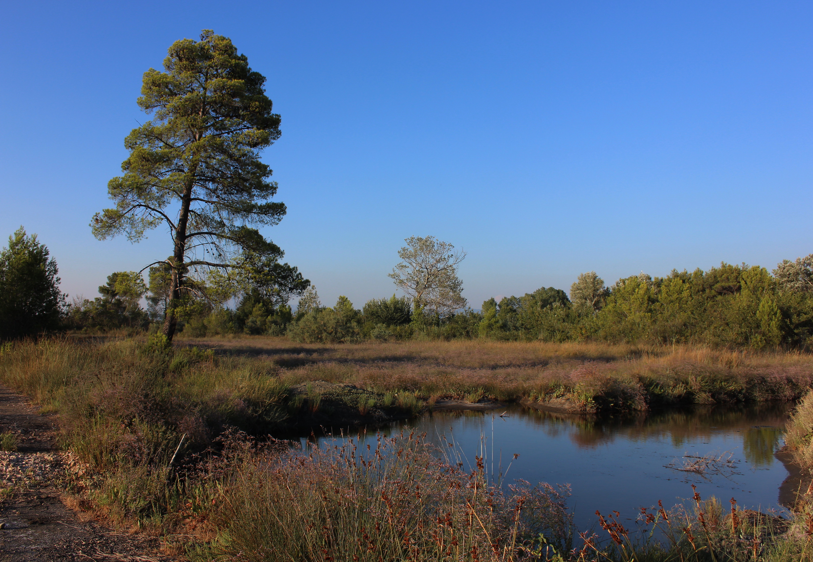 Reserve Patok, Albania. Part of the area that is normally locked and can not be entered.